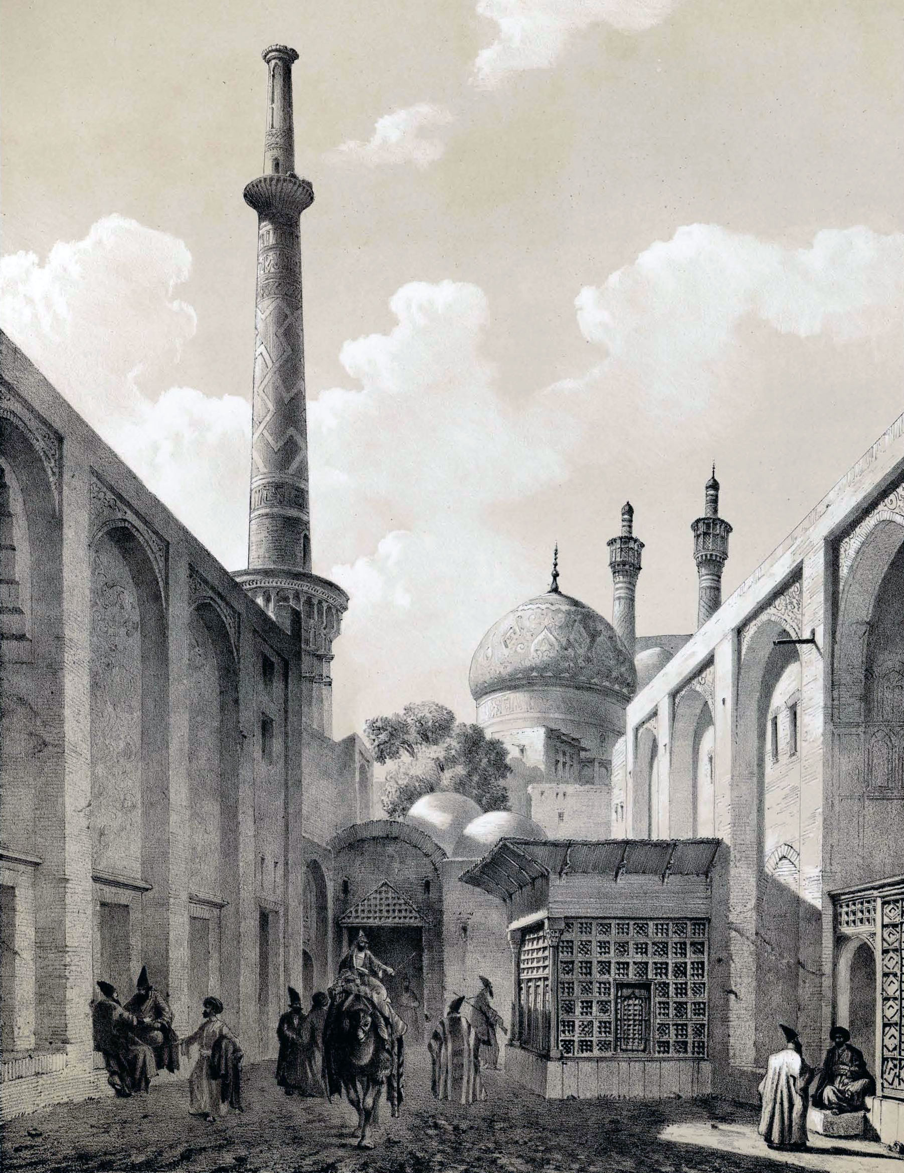 Ali minaret , Isfahan